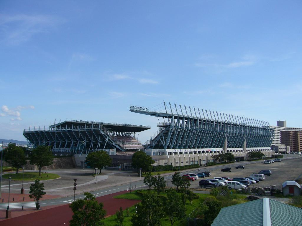 It is Best Amenity stadium (formerly Tosu stadium) in Tosu City, Saga Prefecture in Japan.